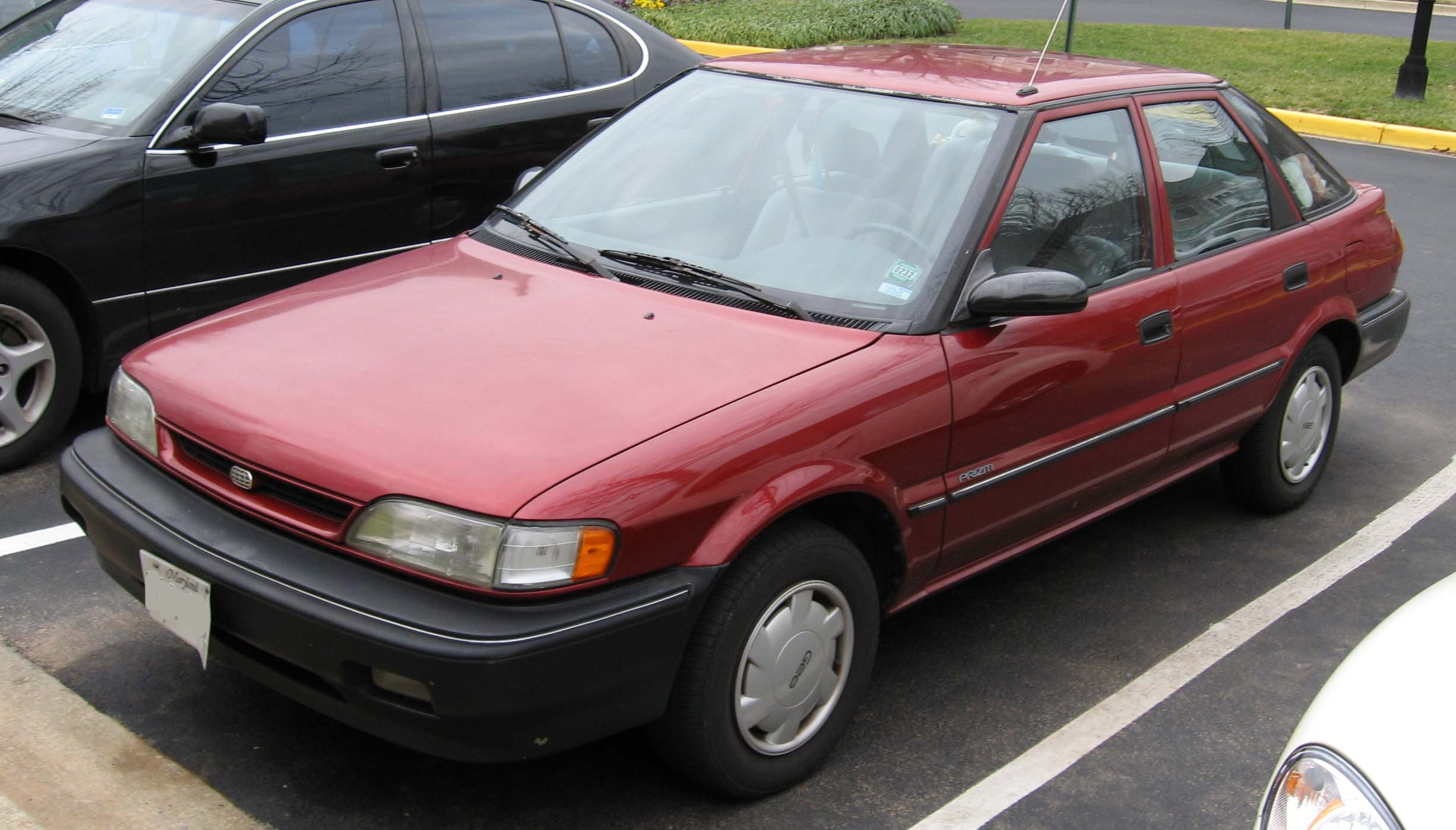 1990-1992 Geo Prizm hatchback photographed in USA.